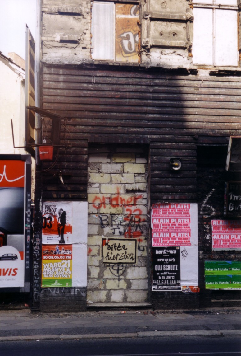 that day I discovered that the (more or less...) glorious "Im Eimer" had been closed... (Eimer on Wikipedia )